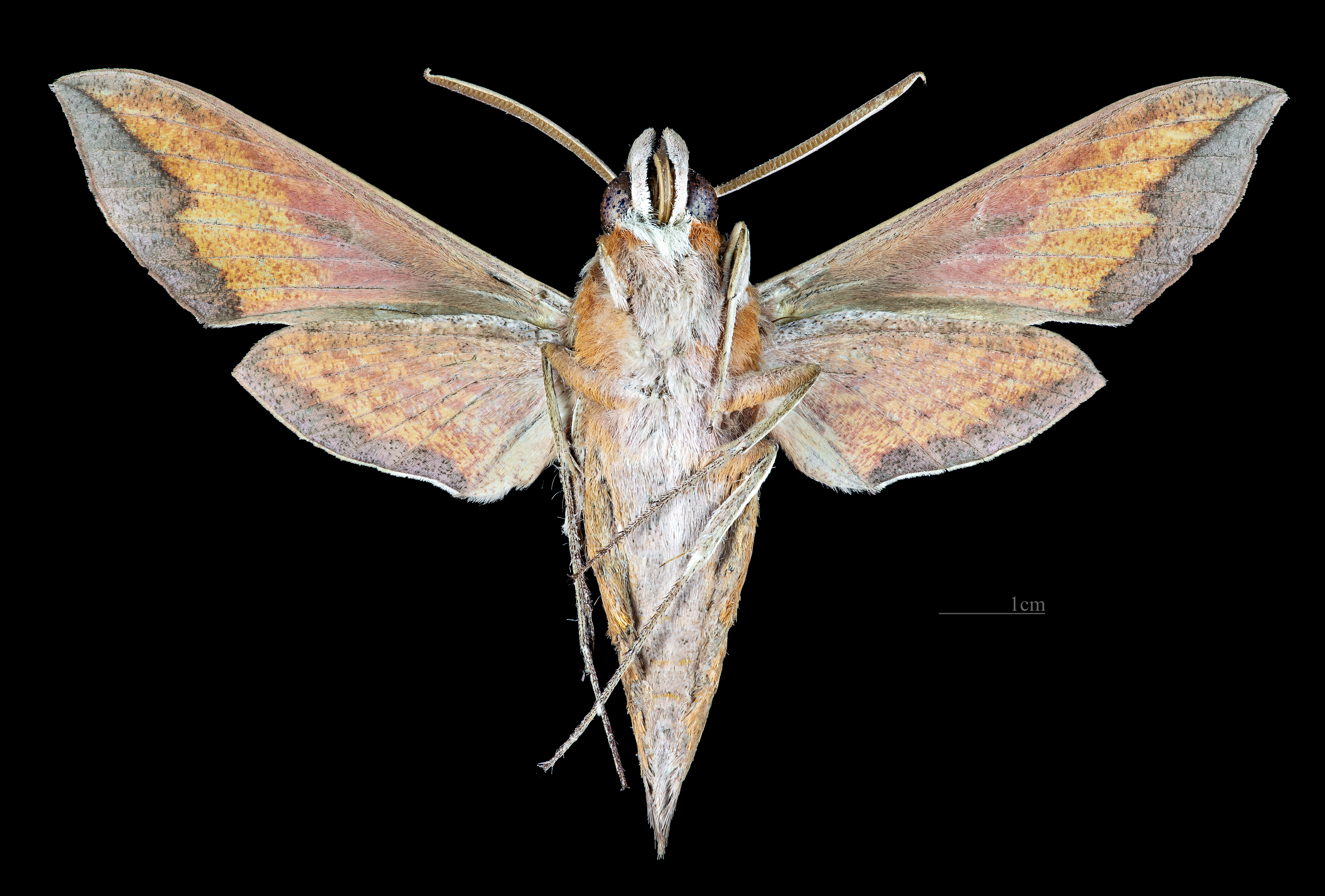 Hippotion rafflesii - △ Ventral side Collection of the Mathematician Laurent Schwartz